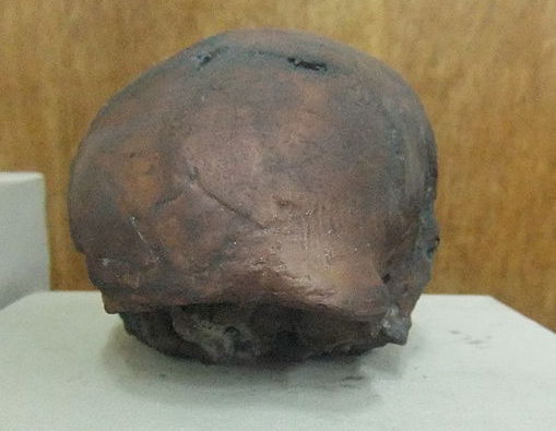 Pithecanthropus modjokertensis, Sangiran Museum, Sragen, Indonesia